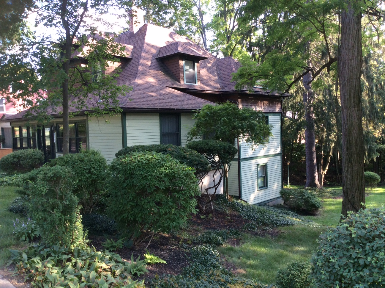 The house at 957 East State Street in Ithaca, NY where Vladimir Nabokov lived with his family in 1947 and 1953 while working on his novel Lolita.